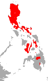 Philippine Forest Horseshoe Bat (Rhinolophus inops) range